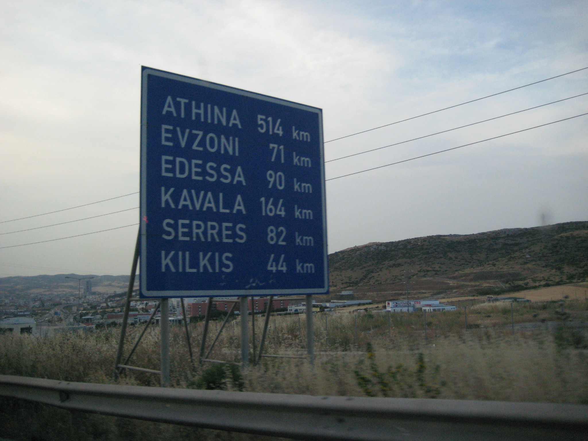 Greek road sign showing distances to different towns and cities of Greece. Sign is located at Thessaloniki Ring Road (Greek National Road 16), direction towards North and West. The font used is DIN1451